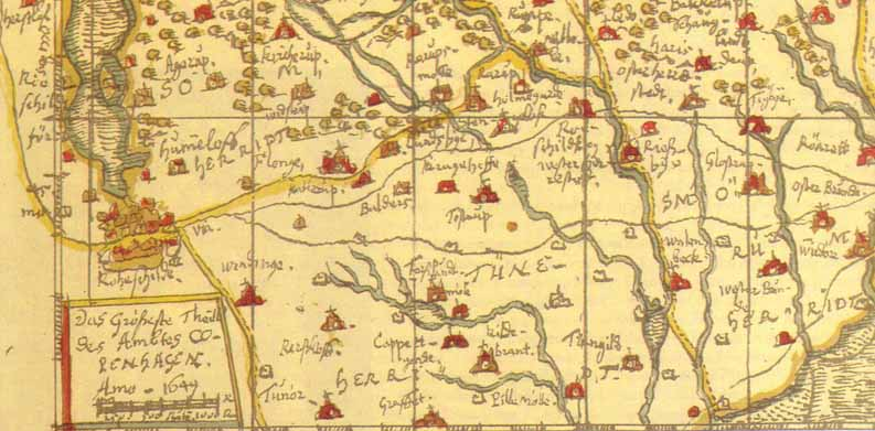 Map showing the area where Hedehusene in Denmark is today.